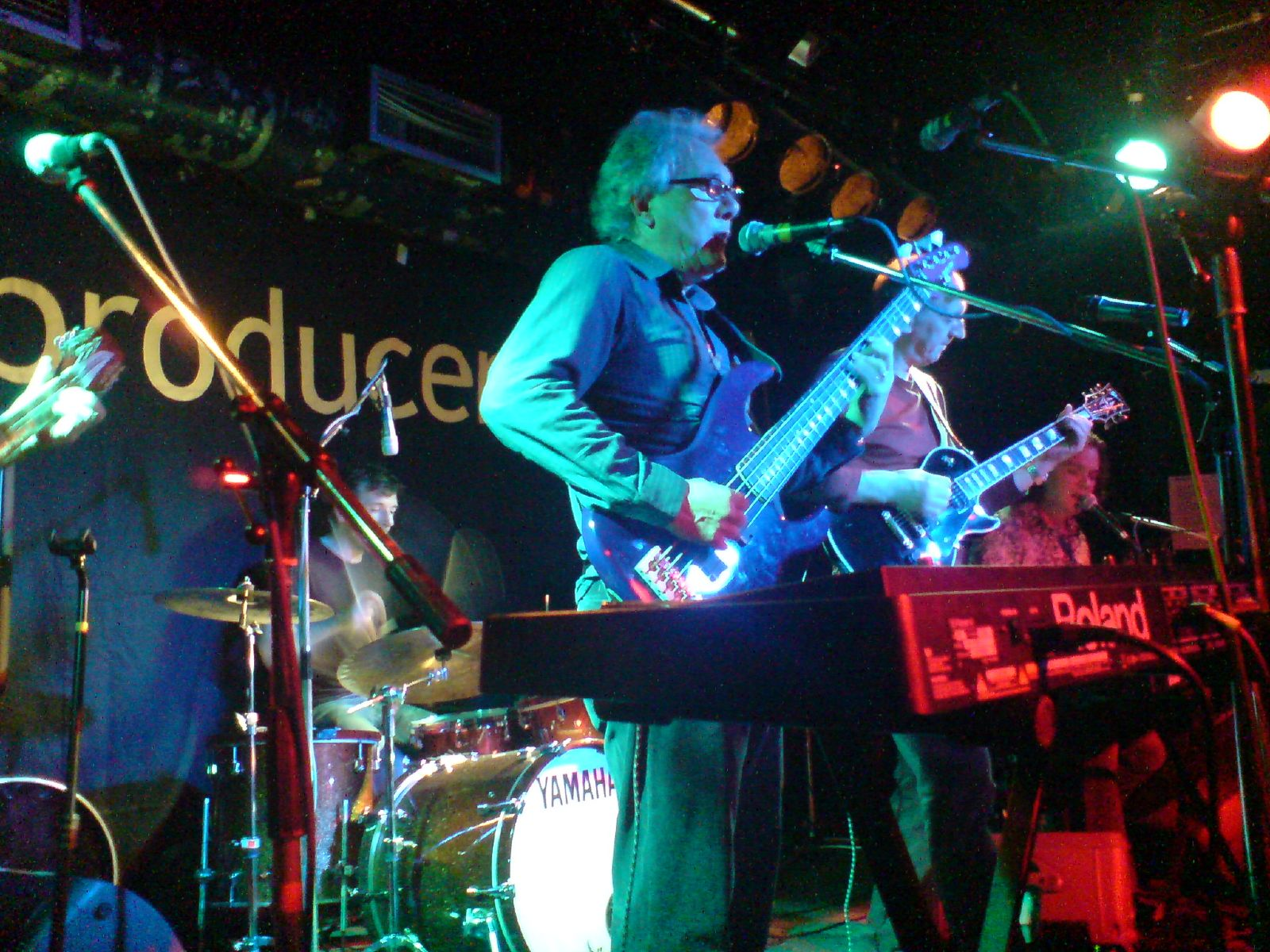 L-R: Ash Soan, Trevor Horn, Stephen Lipson, and Chris Braide.